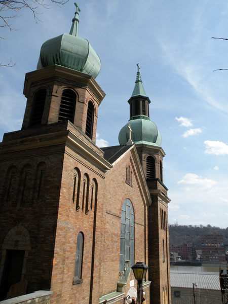 Picture of the old Saint Nicholas Croatian Catholic Church located at 1326 East Ohio Street in the Troy Hill neighborhood of Pittsburgh, Pennsylvania, on March 20, 2010. The church was established in 1894, and is the site of the first Croatian Catholic Parish in America. The church, as pictured, was built from 1900 to 1904, and is on the List of Pittsburgh Landmarks recognized by the Pittsburgh History and Landmarks Foundation (PHLF). Architect: Frederick C. Sauer (1860–1942). The congregation later moved to St. Nicholas Croatian Church in Millvale, Pennsylvania, where it is currently located. That church was built in 1900, and the architect was also Frederick C. Sauer.